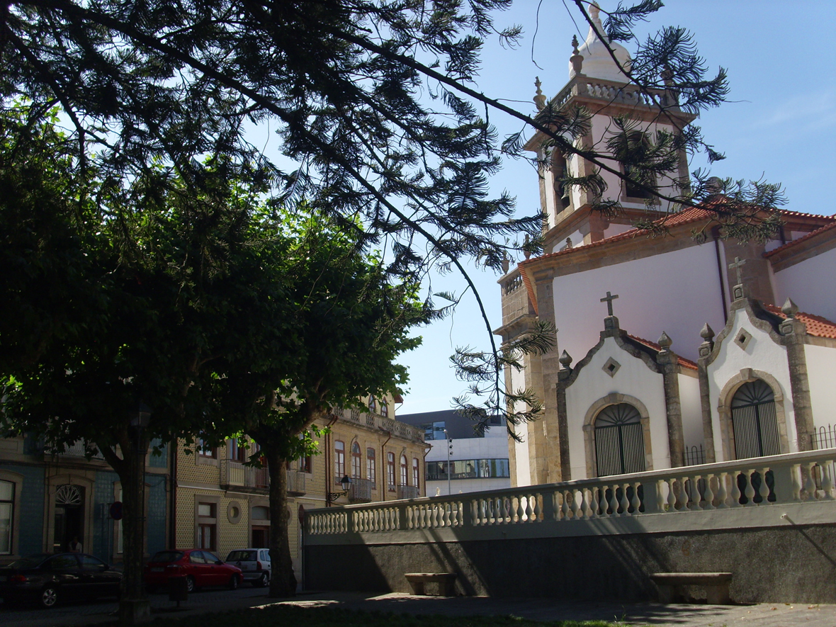 Igreja Senhora das Dores Church in Póvoa de Varzim.